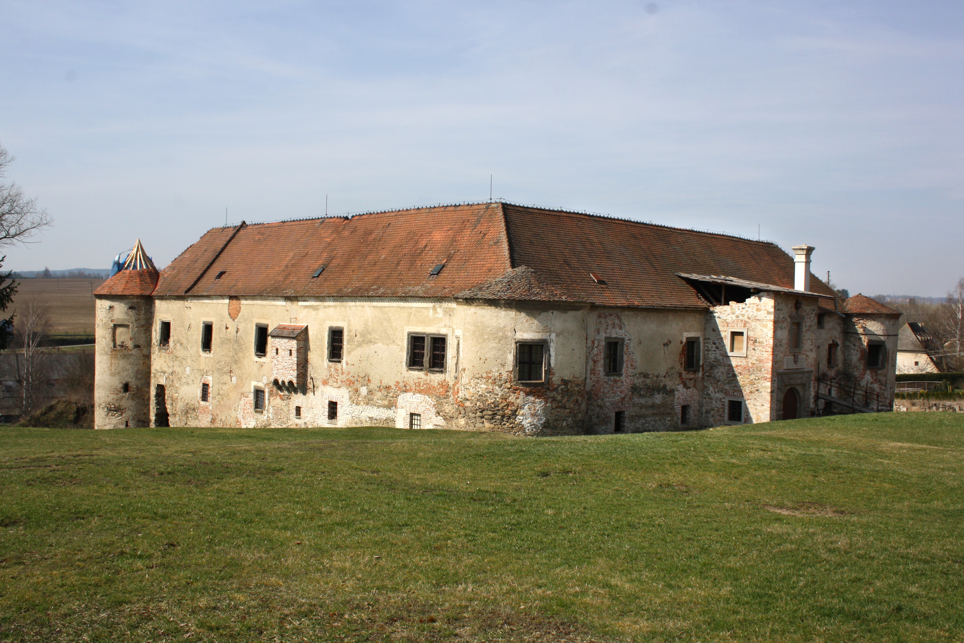 Stránecká Zhoř Castle in Stránecká Zhoř